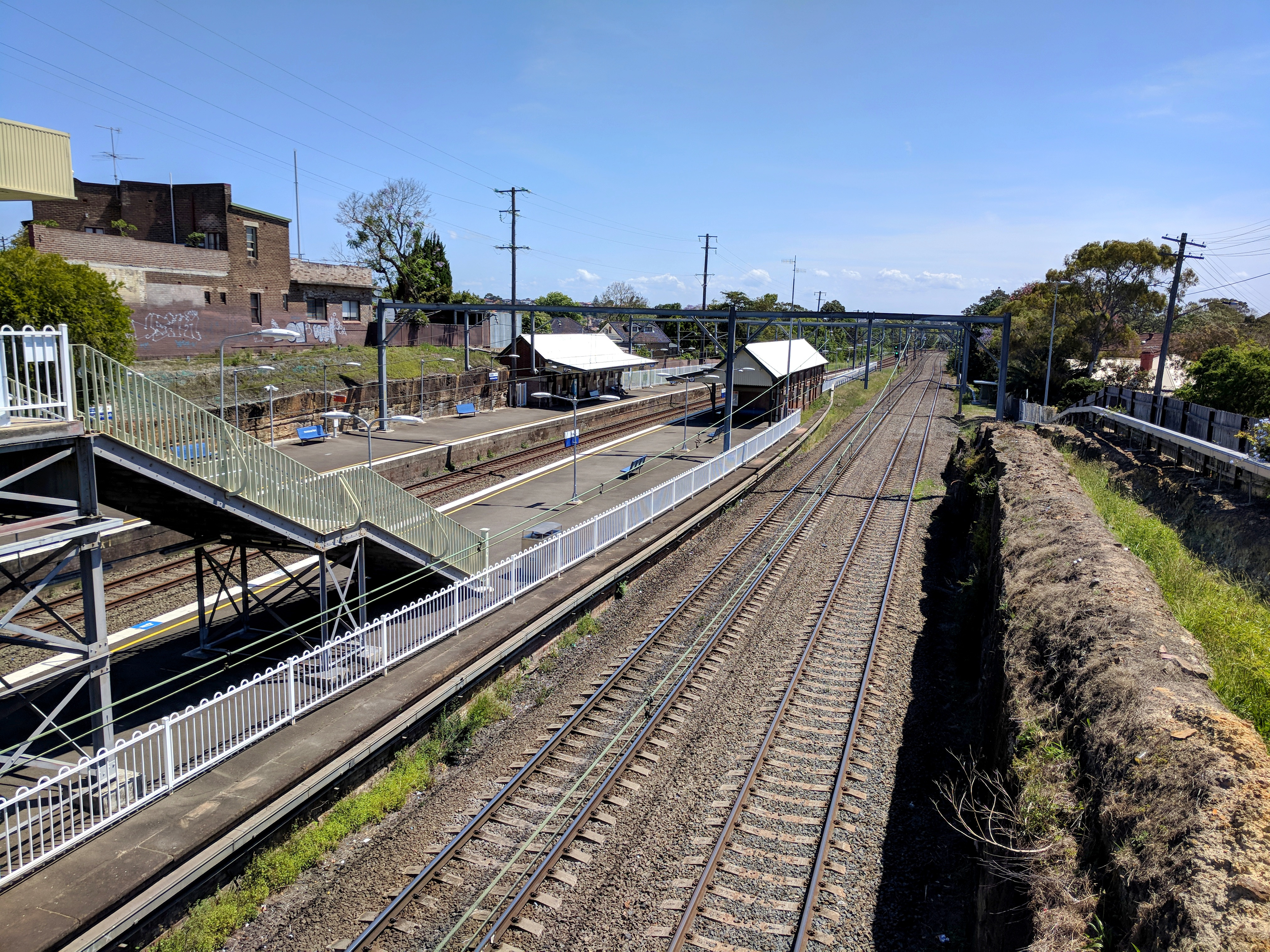 Westbound view in November 2017